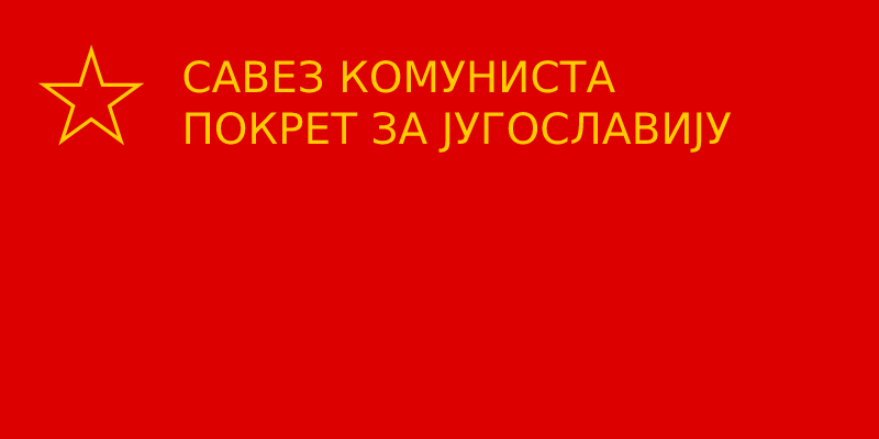 Flag of League of Communists – Movement for Yugoslavia